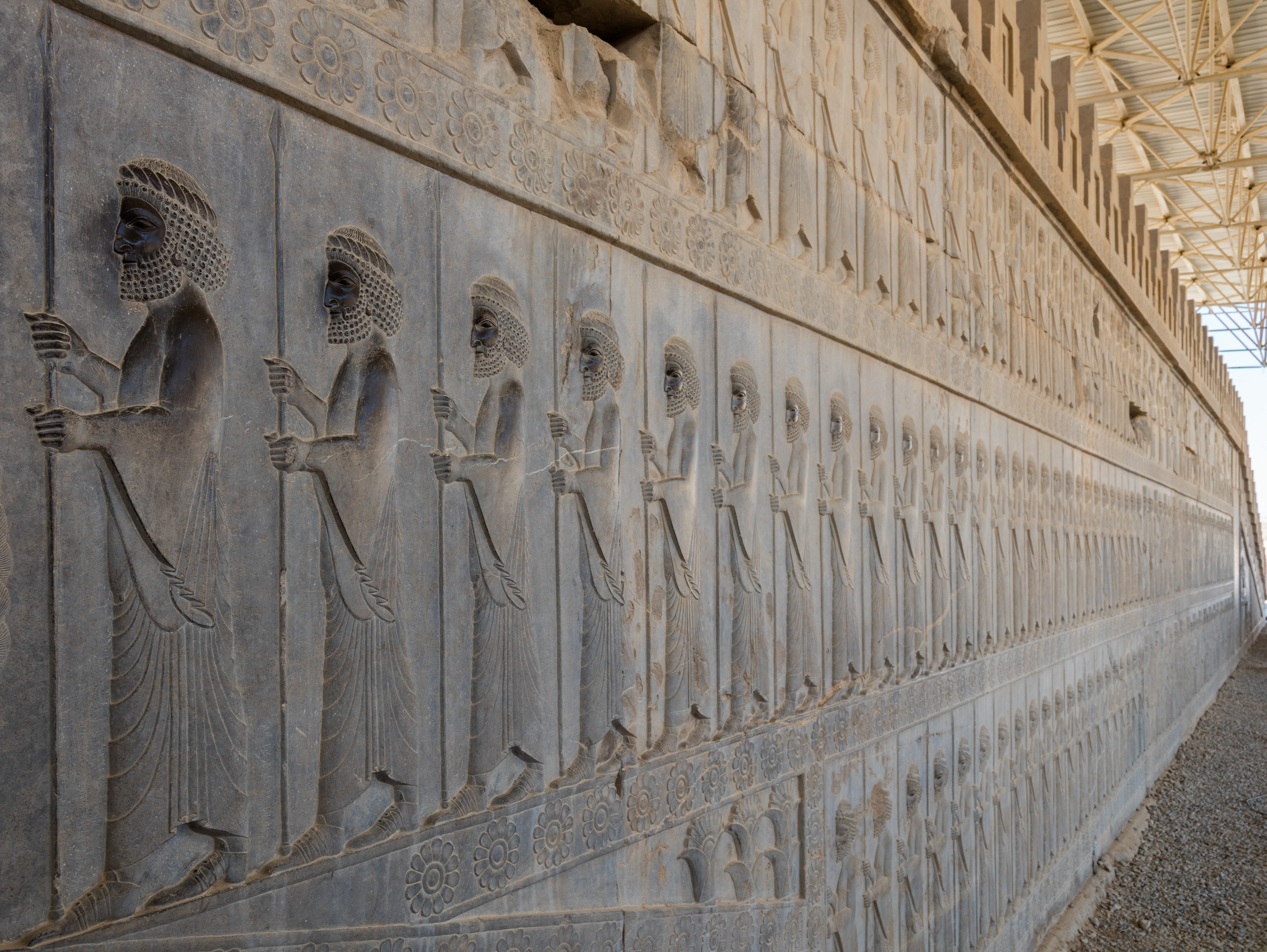 Bas-reliefs of palace guards at the monumental stairs of the Apadana in Persepolis, today Iran. The Apadana was the largest building on the Terrace at Persepolis and was most likely the main hall of the kings. The reliefs of the stairs show delegates of the 23 subject nations of the Persian Empire paying tribute to Darius I along with the here depicted guards. These reliefs are very valuable since the great detail of various of the delegates give insight into the costume and equipment of the various peoples of Persia in the 5th century BC.